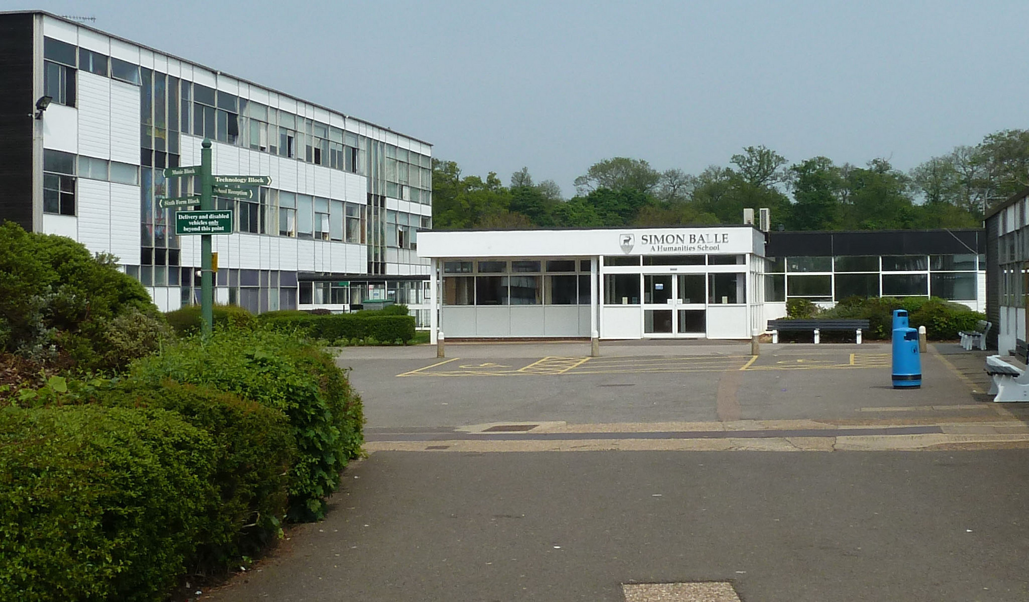 Front